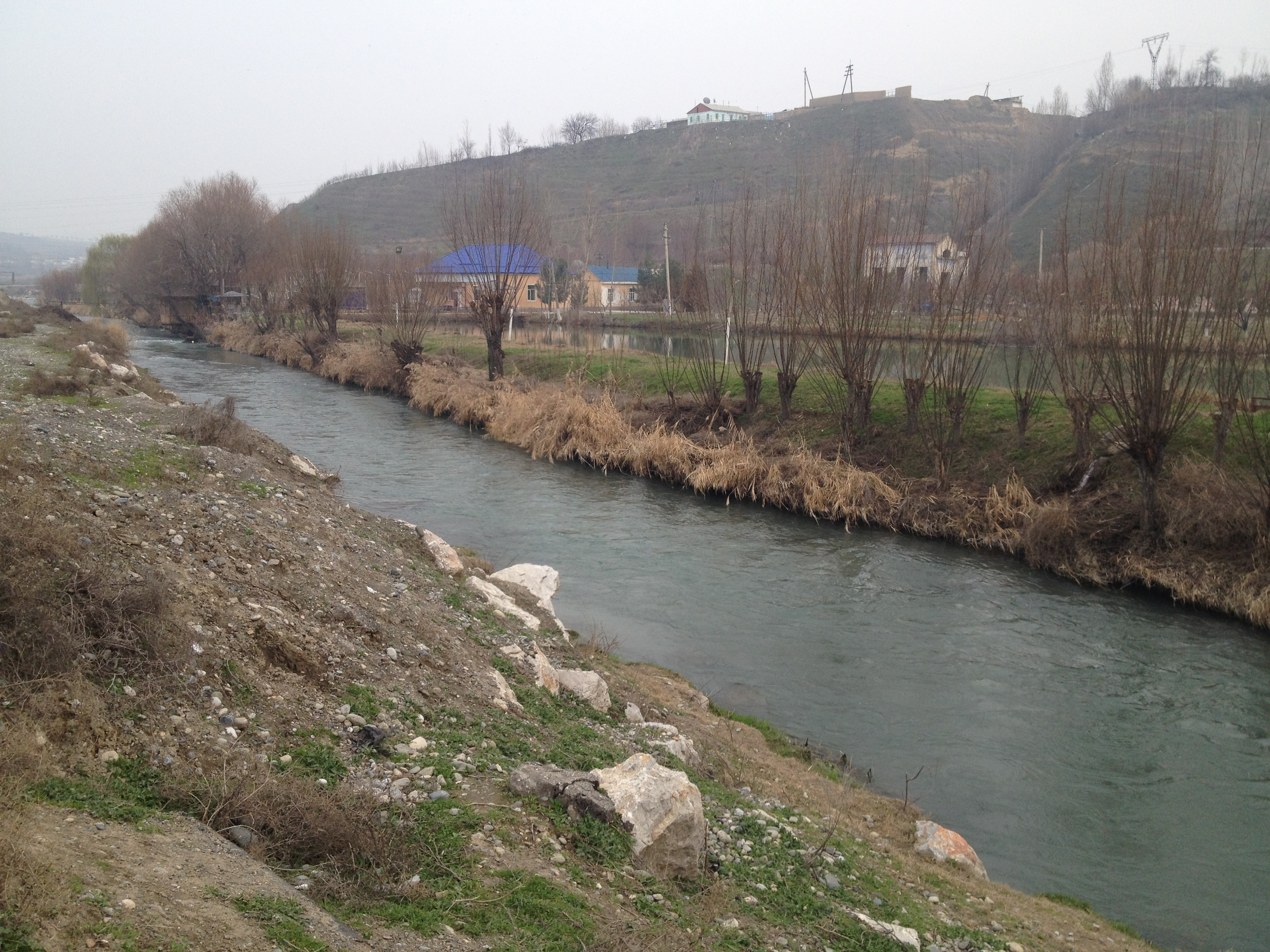 Canal (river) Andijan Say in Andijan city. In the background - south slope of Andijan Say's valley